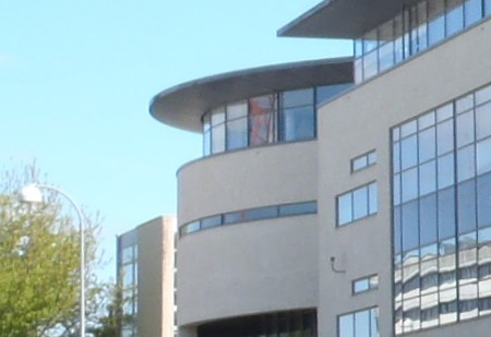 Politiets Efterretningstjeneste, 2012-05-06. Danish Security and Intelligence Service.